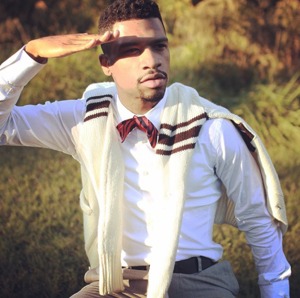 American Champion, Johnny Dutch, wears a bow tie and preppy sweater for a photo shoot.